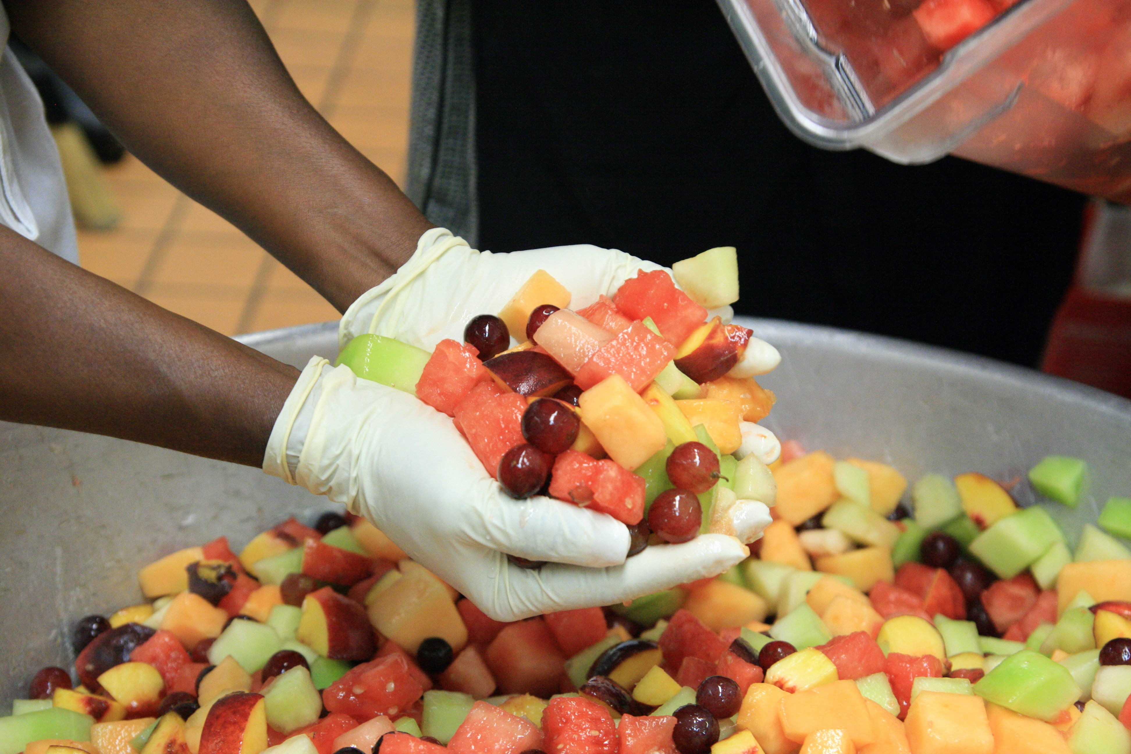 D.C. Central Kitchen broke new ground last week, cooking meals from scratch for seven public schools in the District of Columbia as part of a pilot program this year. This photograph depicts cut fruits in the hands of one of the staff.